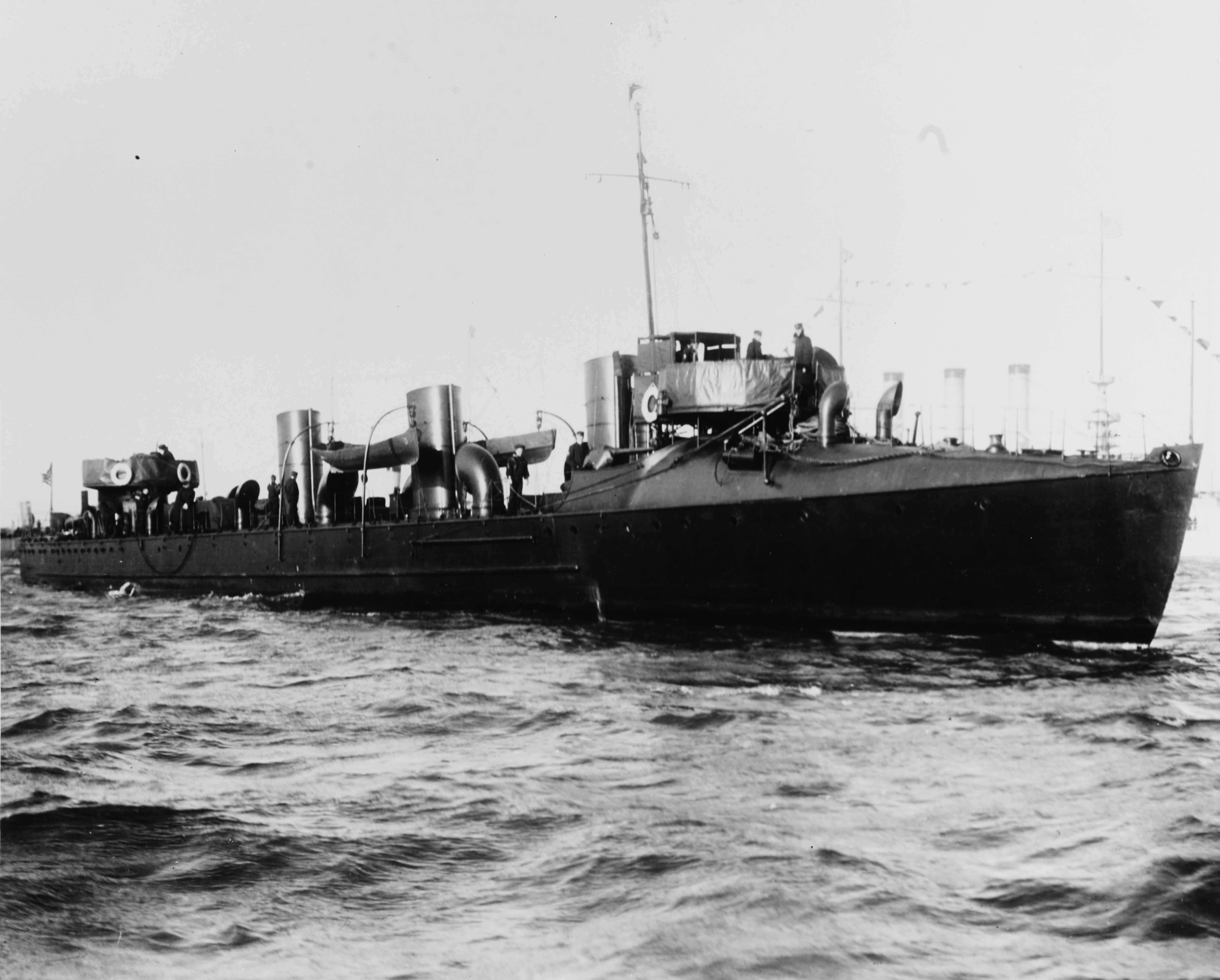 USS Stringham (Torpedo Boat # 19) Photographed in 1907. U.S. Naval History and Heritage Command Photograph.